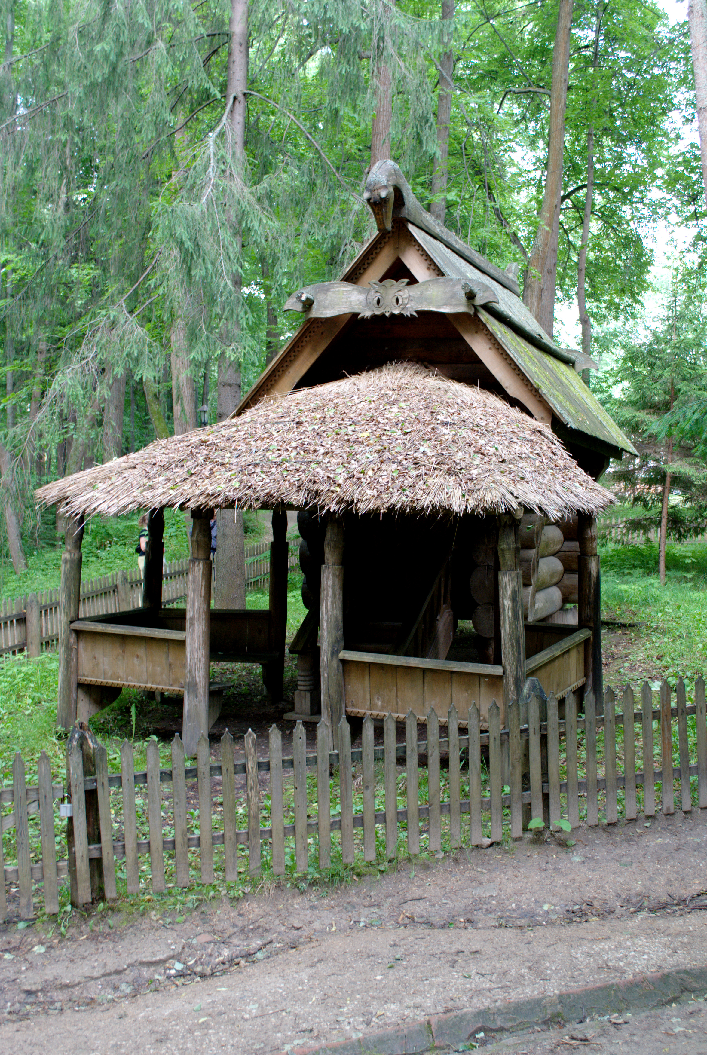 Abramtsevo Museum. "Hut on Chicken Legs".